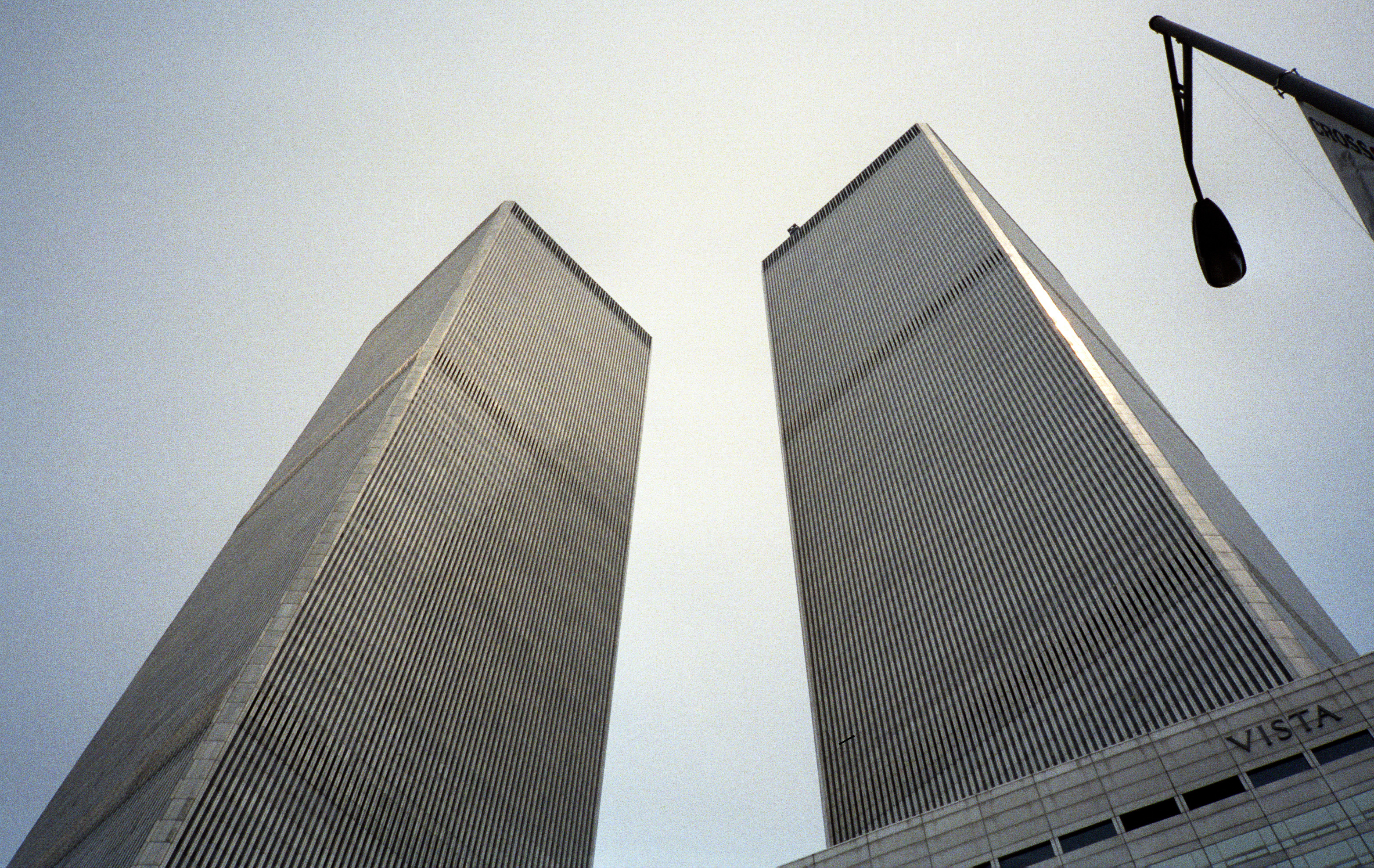 The Twin Towers in New York City viewed from below